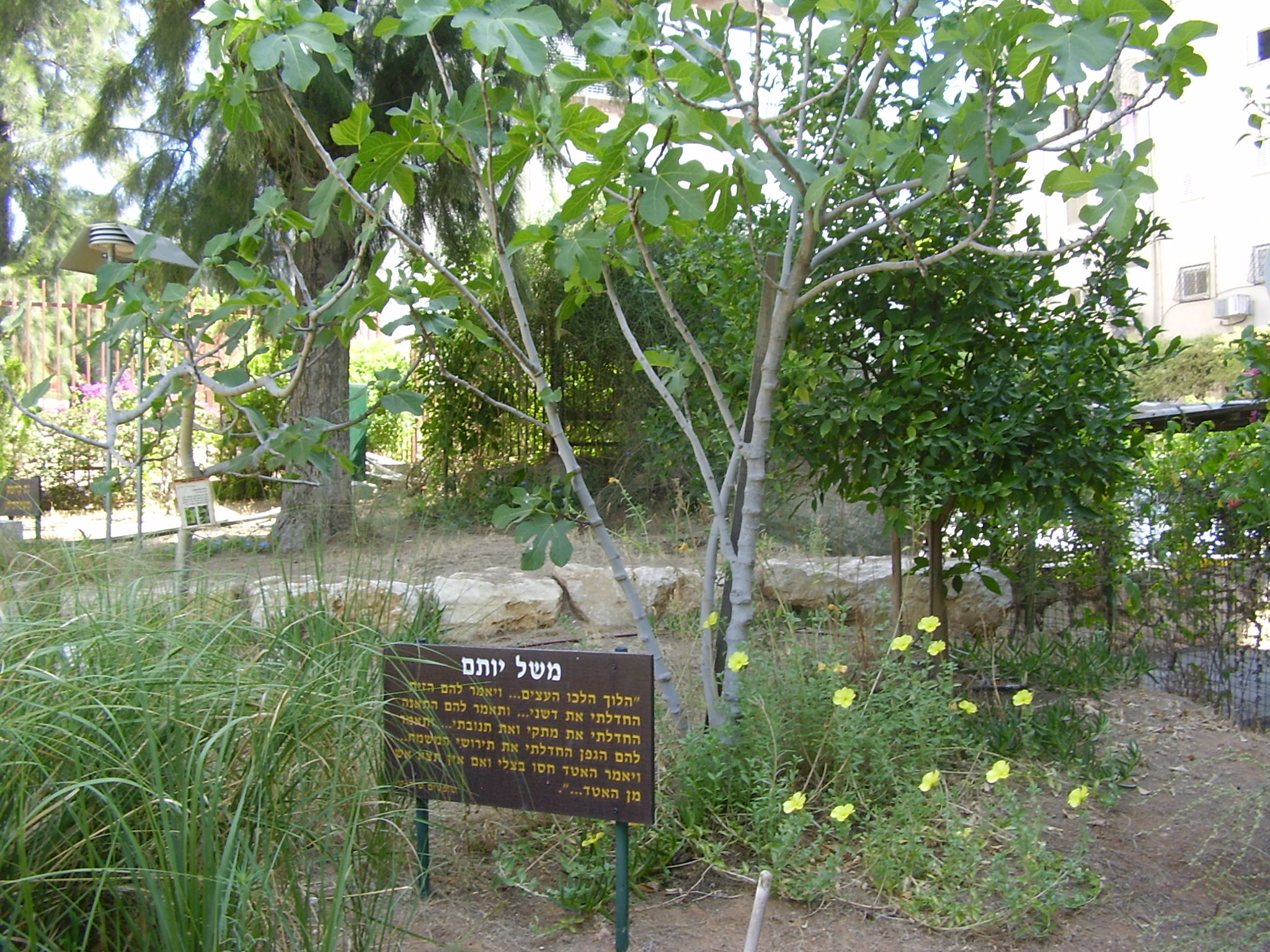 Rina Smilansky Garden in Rehovot